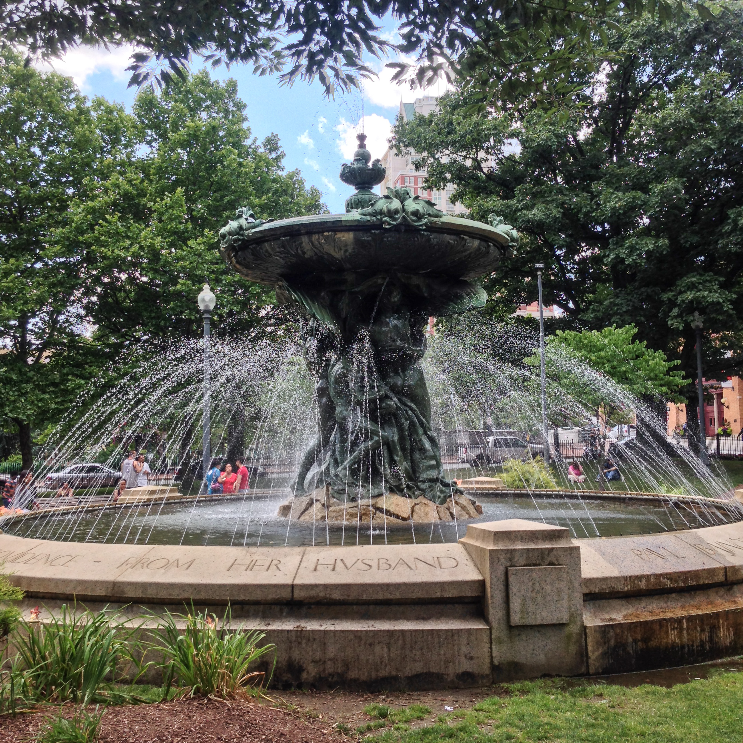 Bajnotti Fountain, Burnside Park, Providence, RI. Sculpture by Louisville artist Enid Yandell.